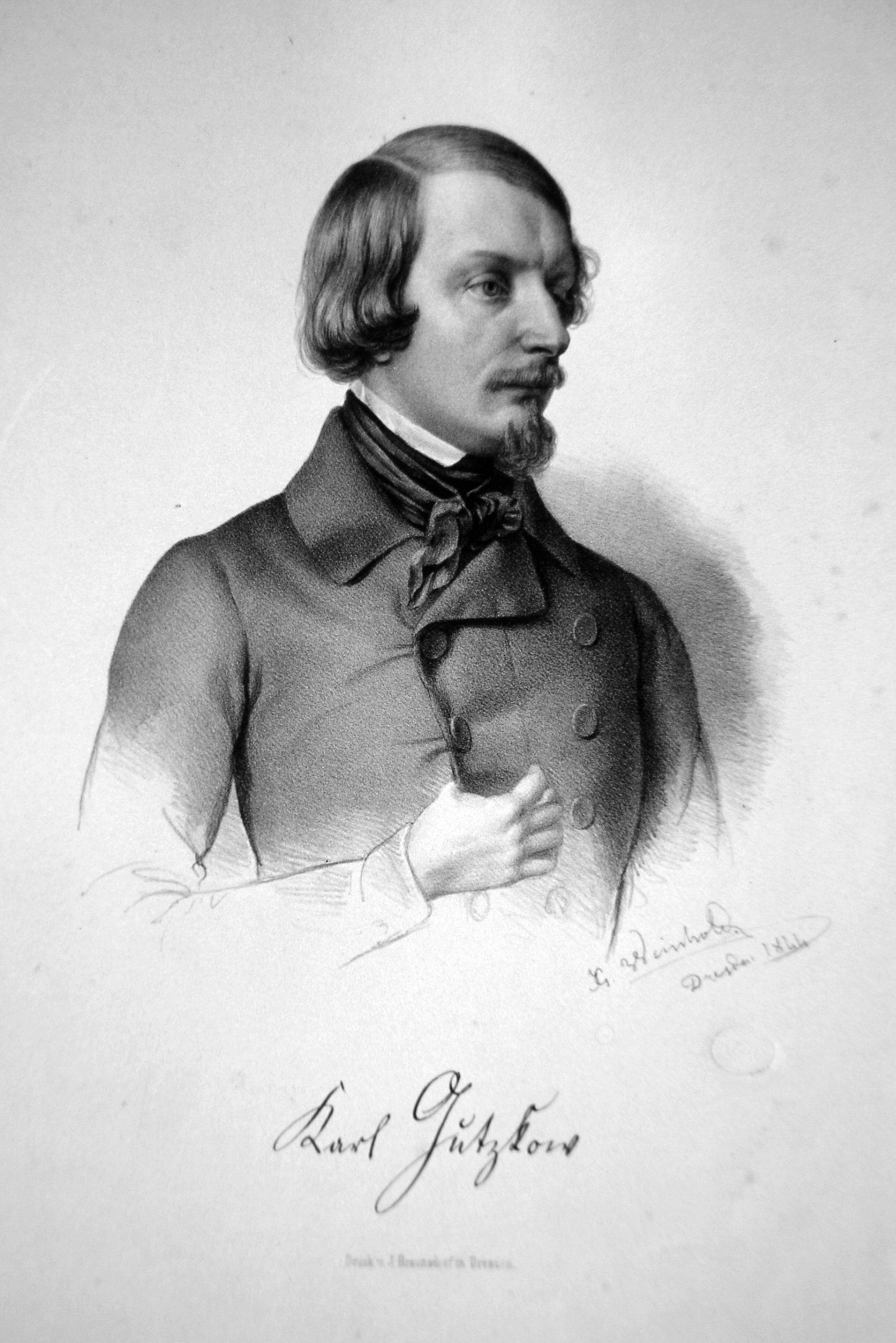 Karl Gutzkow (1811-1878), German writer Lithograph by G. Weinhold, 1844